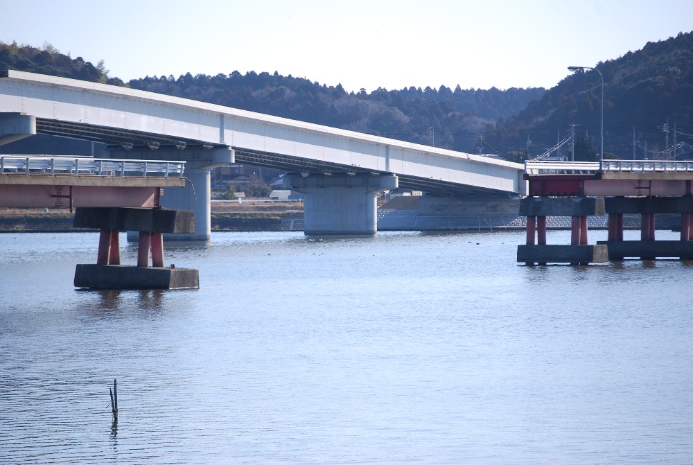 Rokko Bridge in Namegata City, Ibaraki Prefecture, Japan, fallen by the 2011 Eastern Japan Great Earthquake